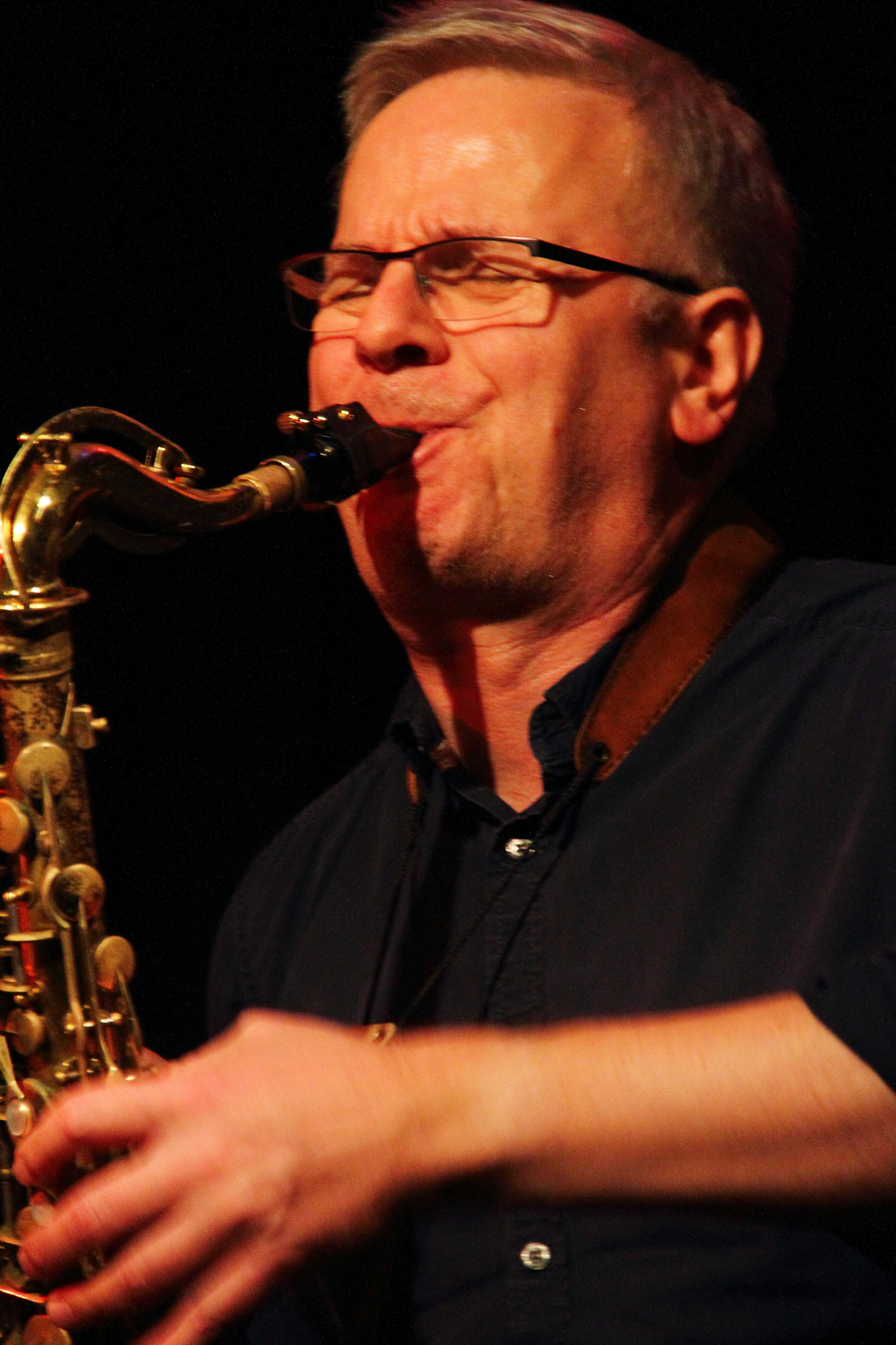 Stefan Keune (sax), Dominic Lash (db) & Steve Noble (dr) in concert at Club W71.